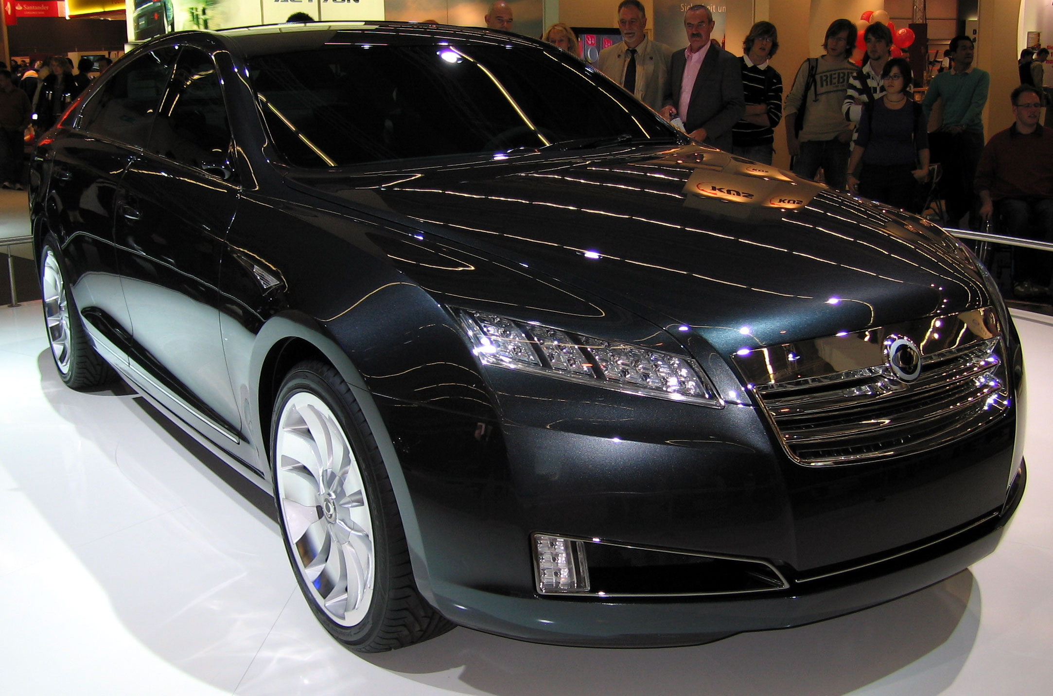 SsangYong Wz Concept at the IAA 2007